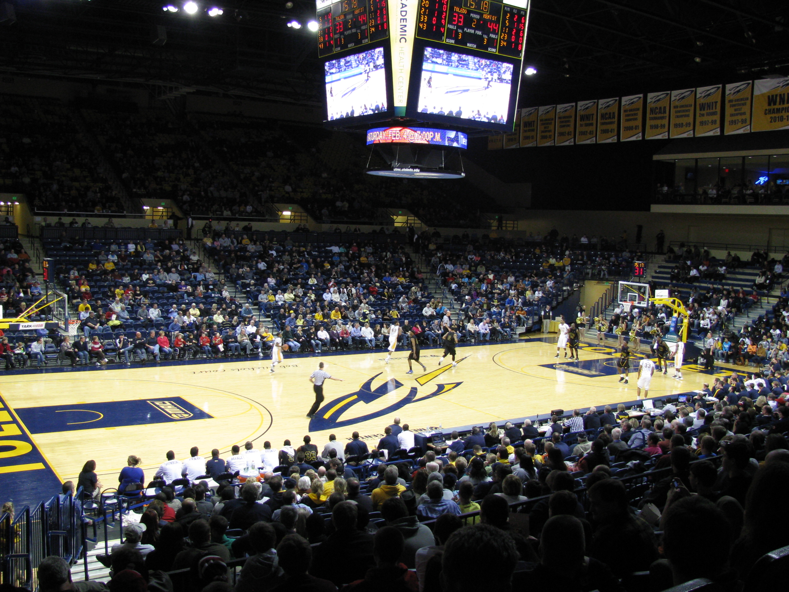 Interior view of Savage Arena on the campus of the University of Toledo in Toledo, Ohio, USA.